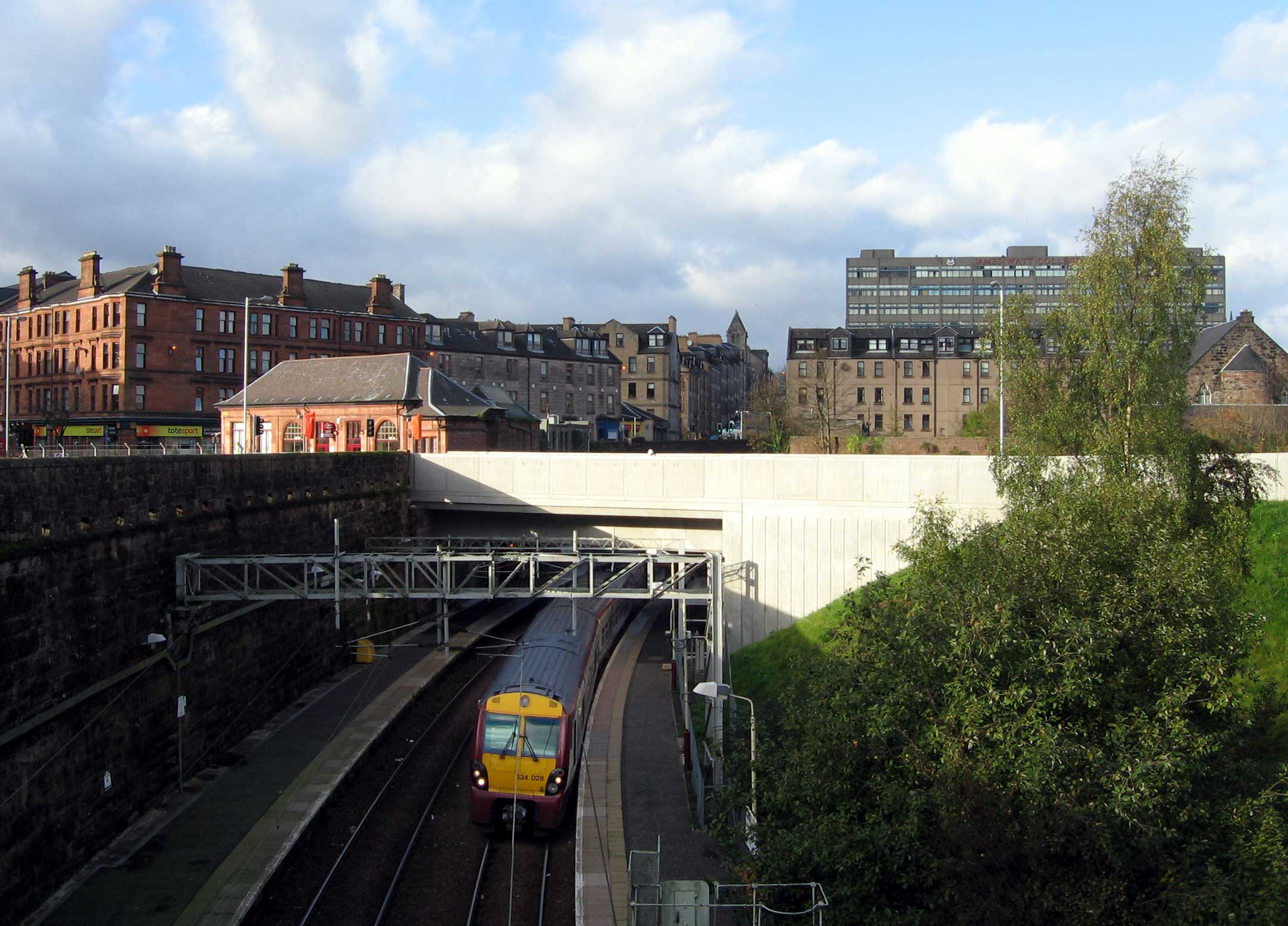 Strathclyde Partnership for Transport British Rail Class 334 train 334028 at Greenock West railway station, Creenock, with the James Watt College Finnart campus in the background.